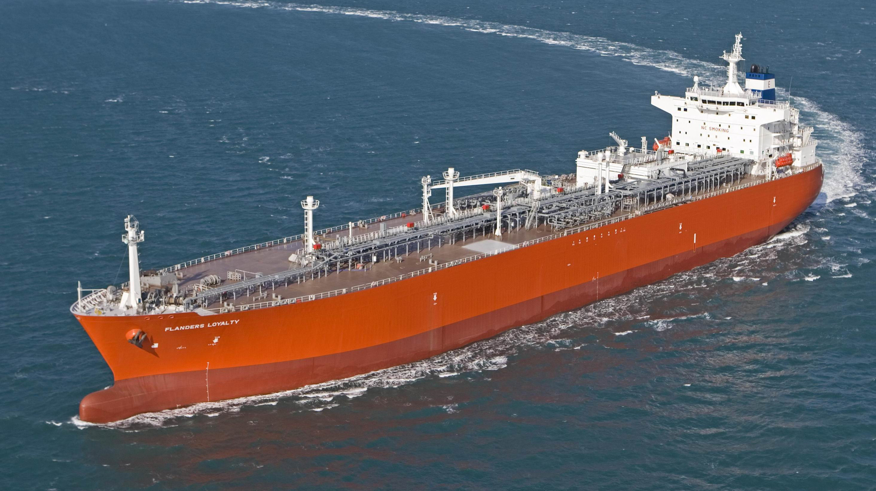 Flanders Loyalty Seatrials IMO Number: 9350290 MMSI Number: 205507000 Callsign: ONEV Length: 226 m Beam: 37 m